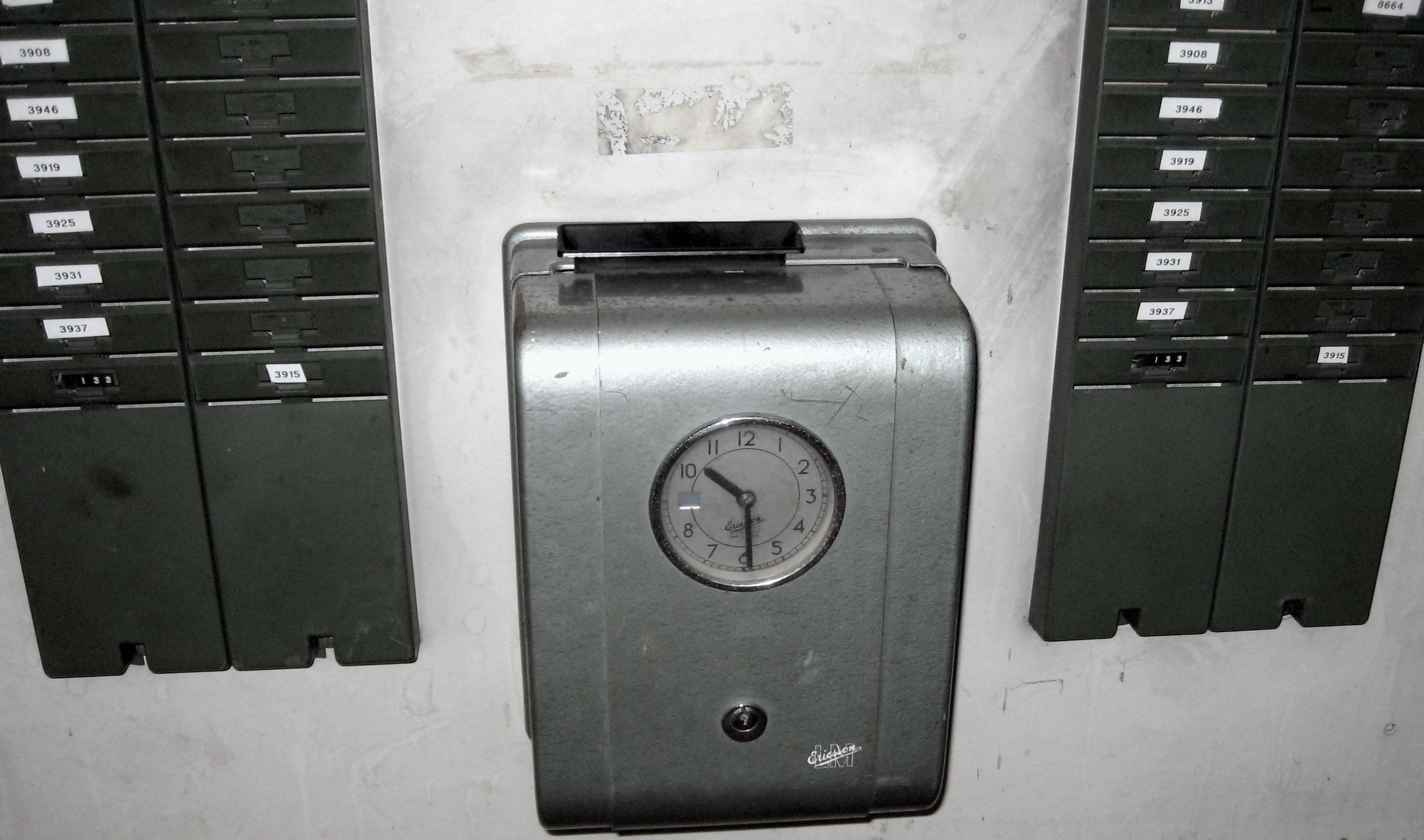 a time recorder